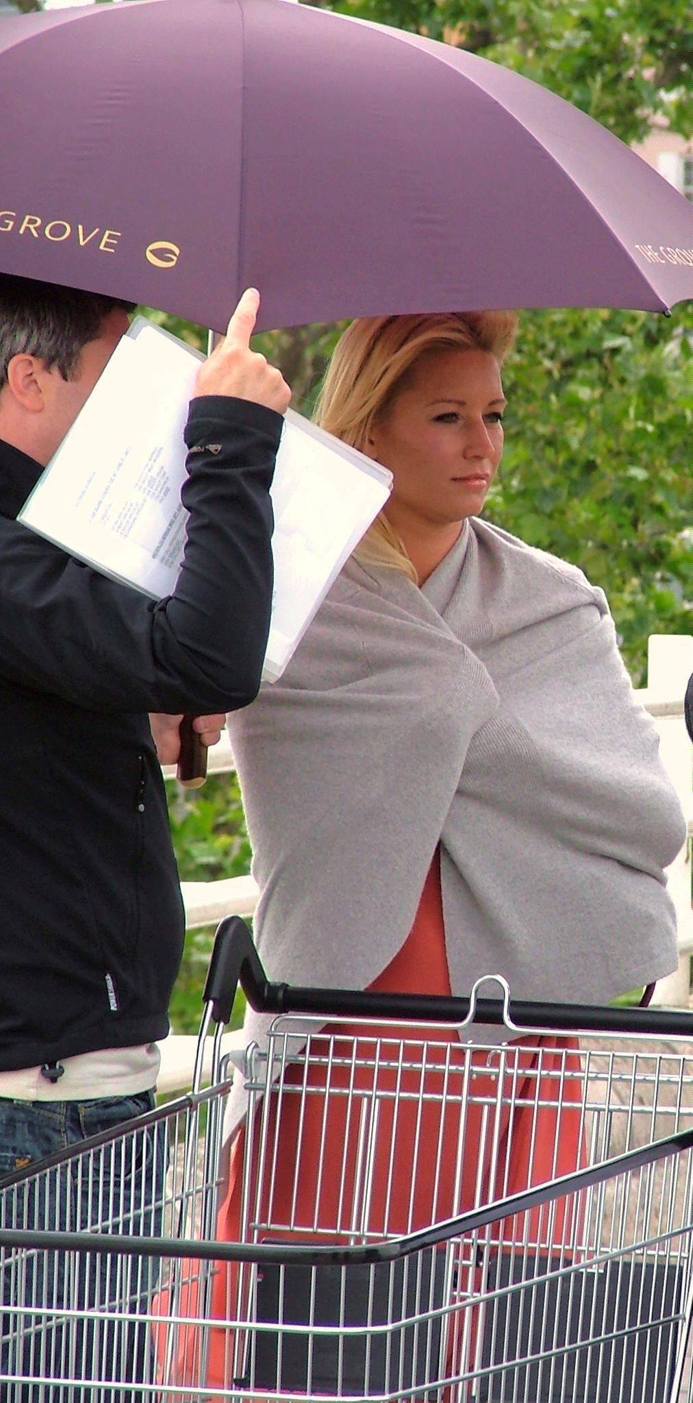 Denise van Outen filming for a Morrisons advert on Waterloo Bridge.Denise Van Outen - Waterloo Bridge, London, England - Wednesday June 20th 2007